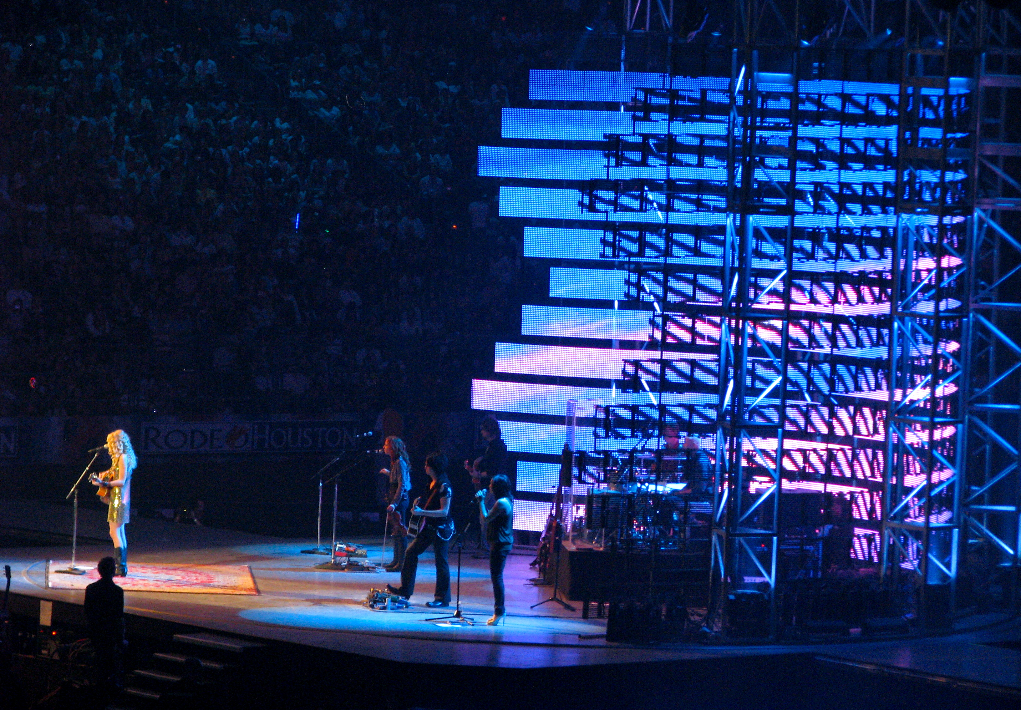 Taylor Swift during her concert at the Houston Rodeo.